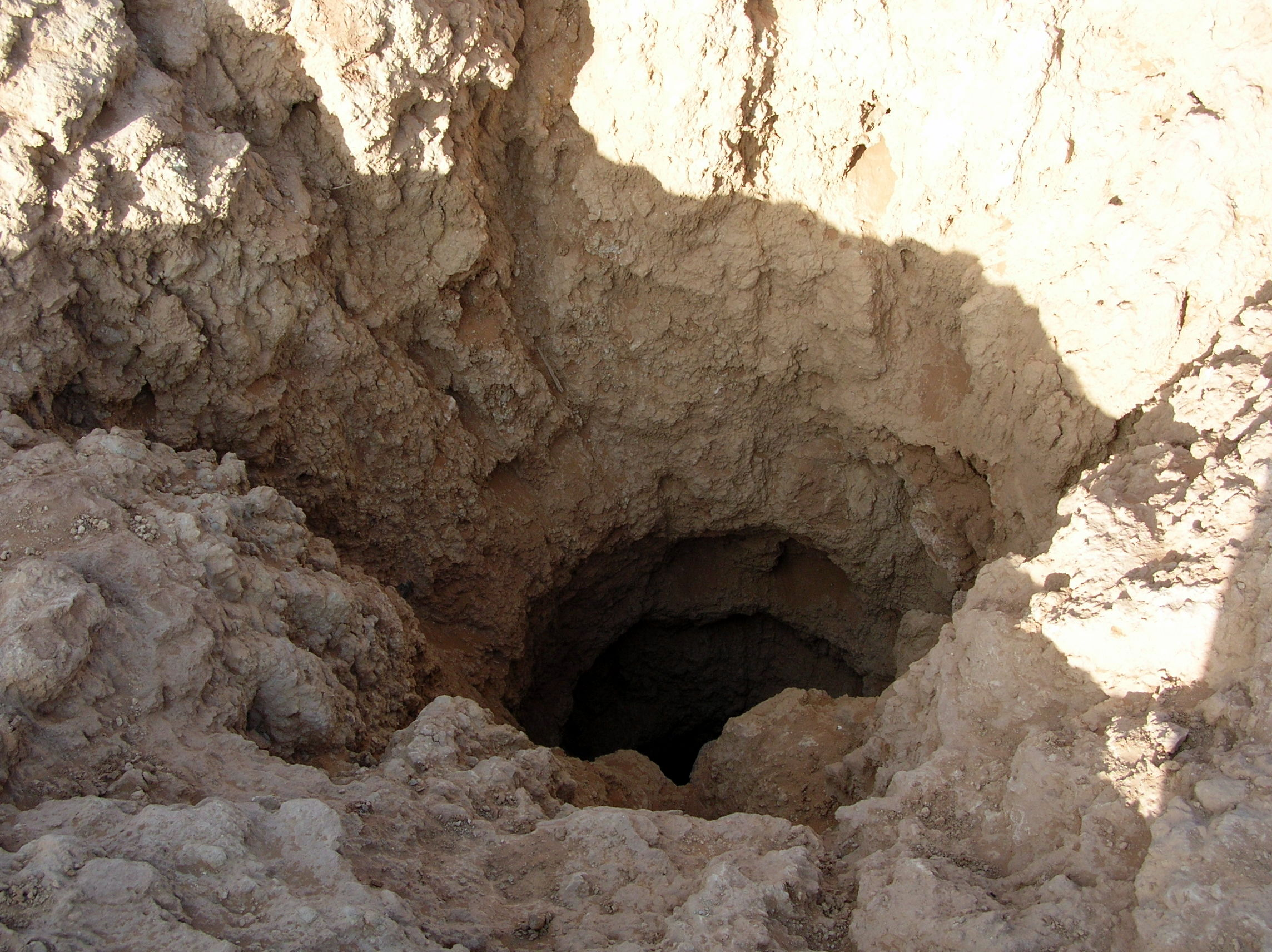 Khettara hole near Erfoud, Morocco